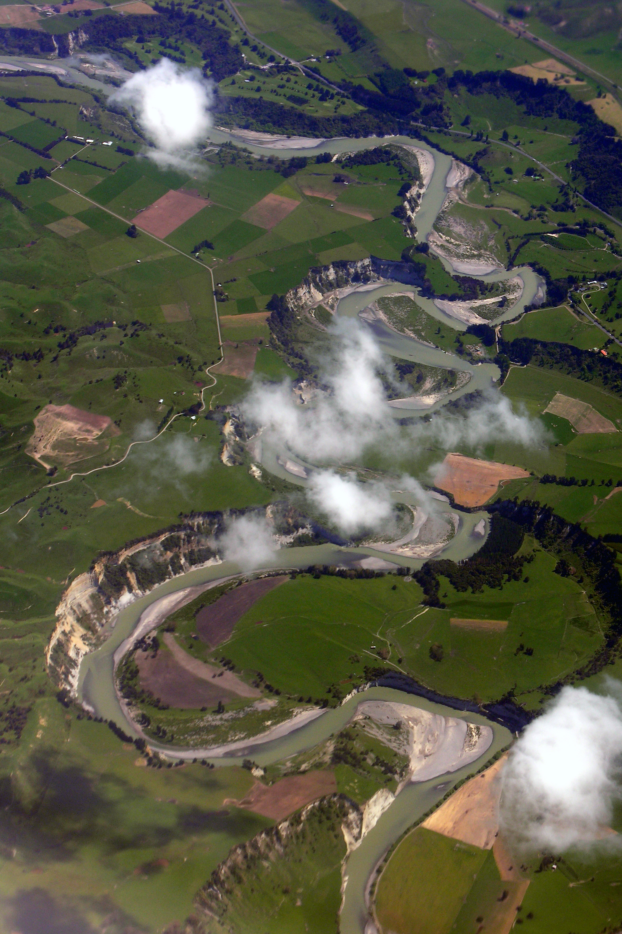 Incised meanders on the Rangitikei River near Hunterville, New Zealand, 26 October 2005